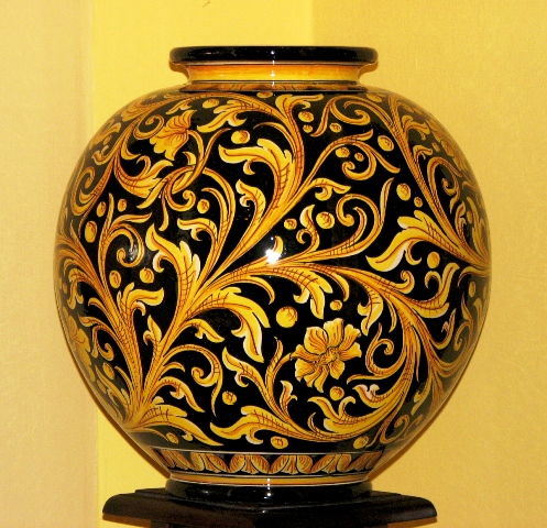 Made on the potter's wheel and hand painted. Produced by Artistic Pottery Agatino Caruso from Caltagirone (Ceramiche Artistiche Agatino Caruso).